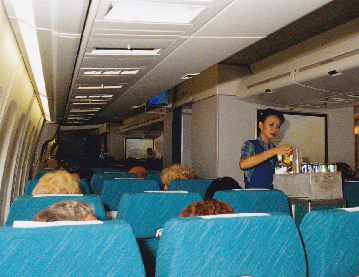 Flight attendant China airlines